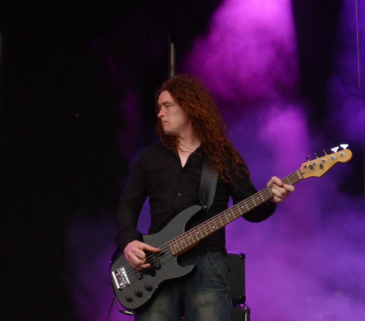 Live Festimad 2007 , 8 June 2007